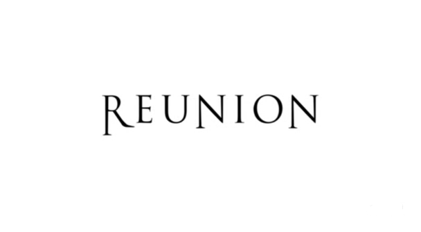 self-made screen cap of intertitle of Reunion (TV series), episode 7 from tvrip; FOX 5 station bug removed